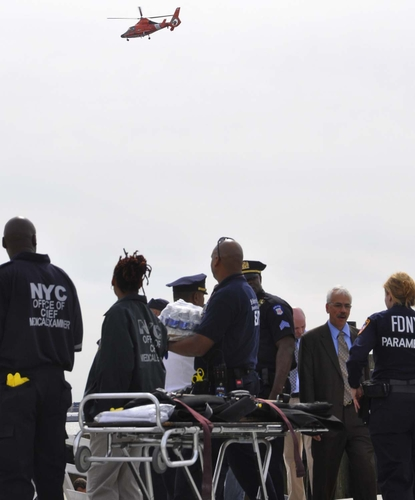 Emergency services stand by to take care of possible survivors in the 2009 Hudson River mid-air collision